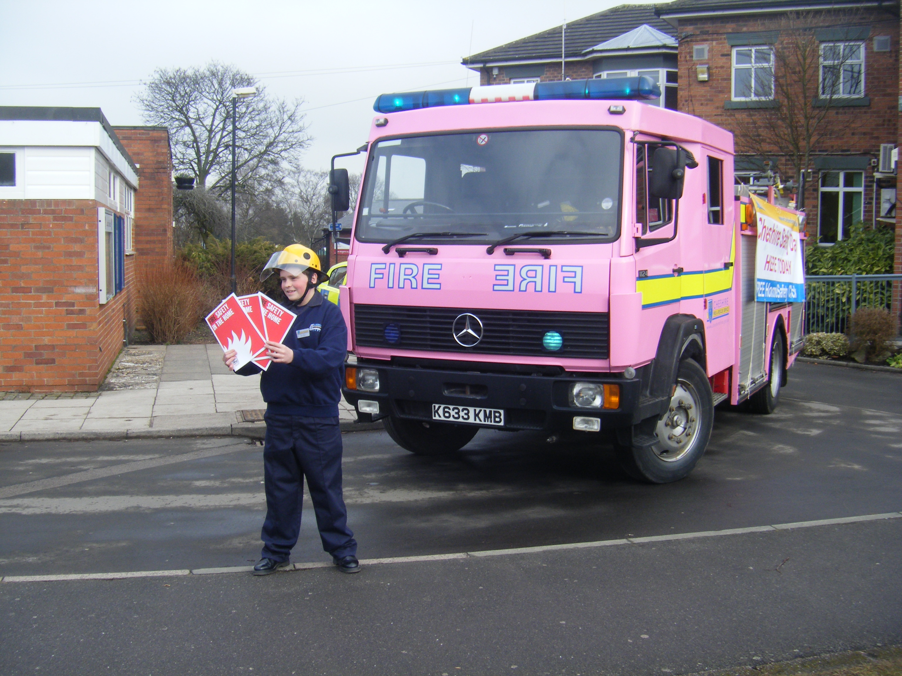 Cheshire Safety Day